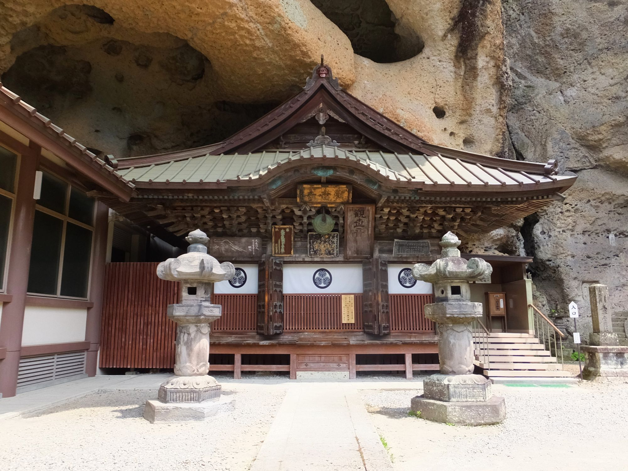 Ōya-ji temple in Utsunomiya, Tochigi Prefecture